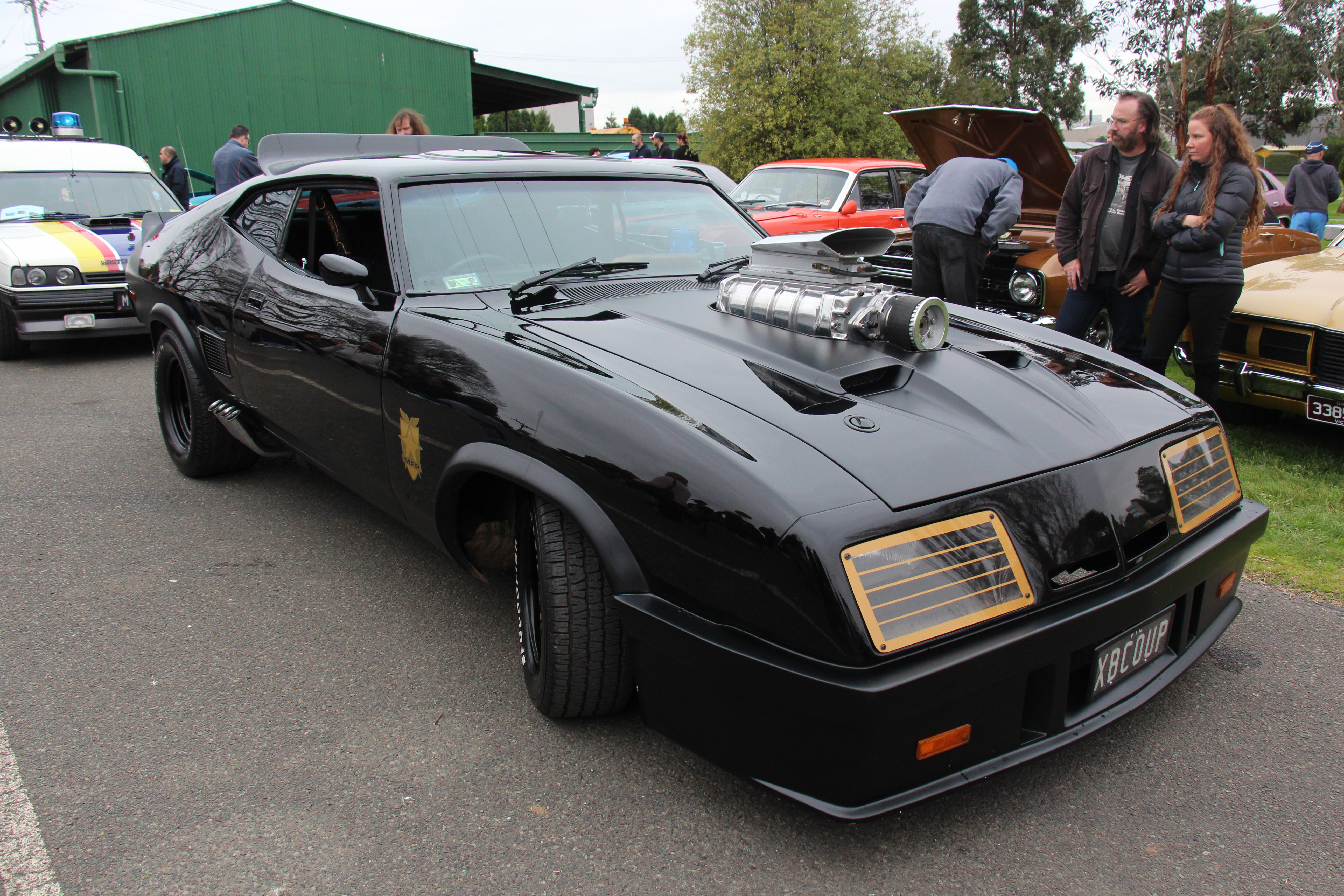 The original car featured in the Australian Mad Max Movies of the 70's. They needed a high performance evil looking Australian car for Max to pursue the villians in. The car started out as a 1973 Ford Falcon XB Hardtop, then it got the Concord front end, a wing was added to the roof and trunk lid, it got a supercharger, side pipes etc. In the 2nd Mad max movie, Mad Max II, the car was modified furthur, and got the twin gas tanks in the rear boot space, it also got a more distressed look.